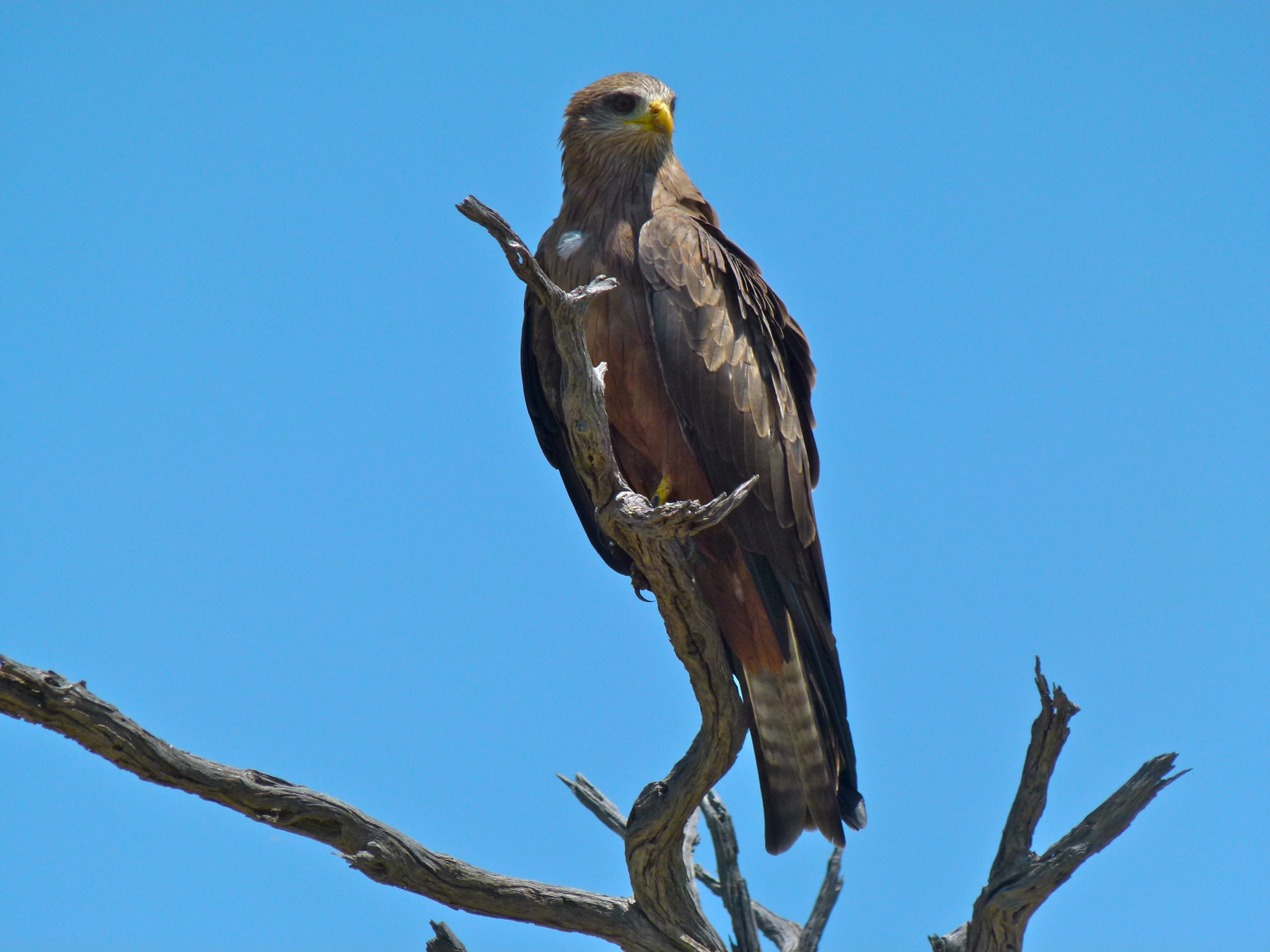 Nossob River Bed, Kgalagadi Transfrontier Park, SOUTH AFRICA